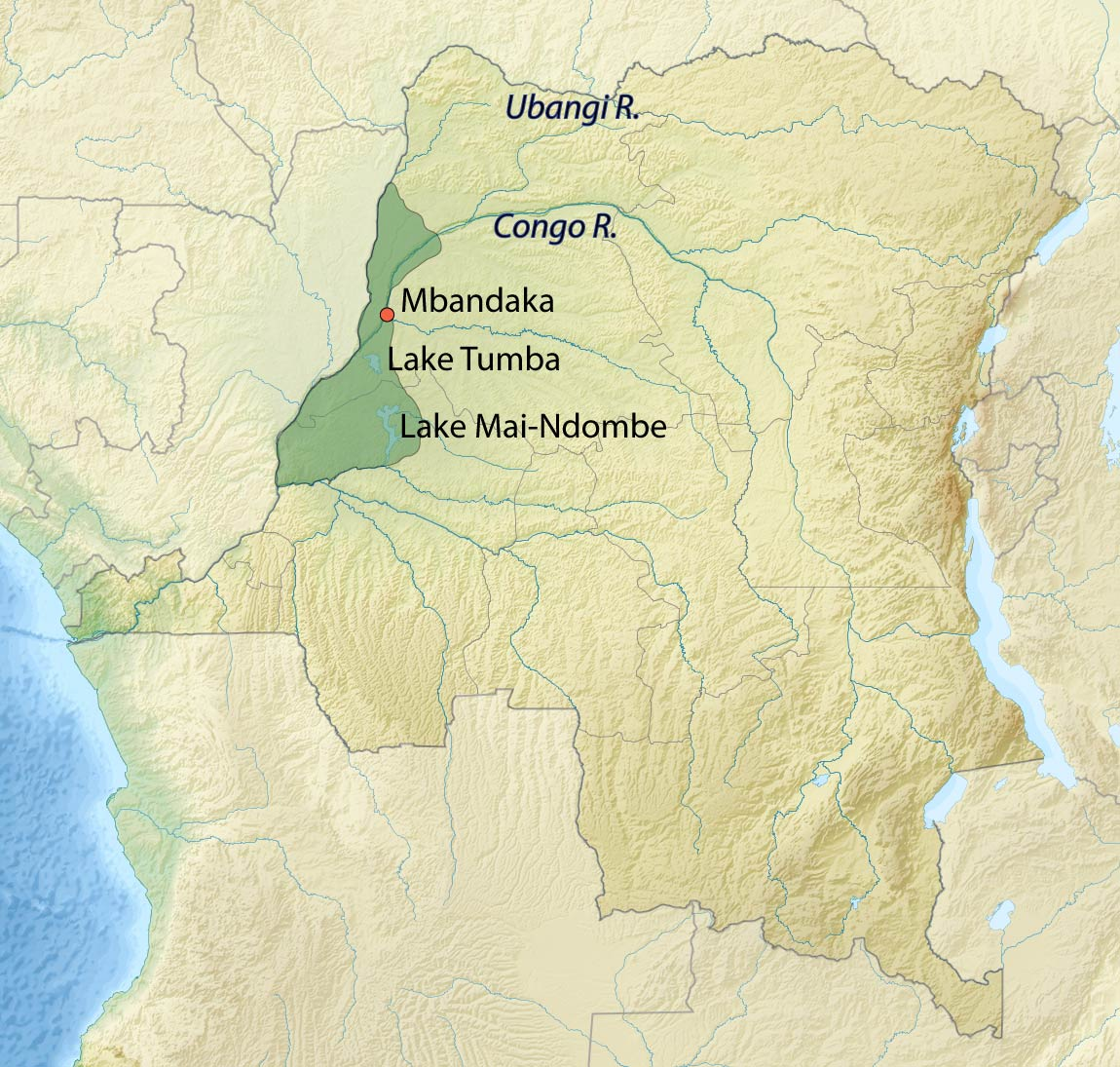 Relief map of the Democratic Republic of the Congo showing the location of the Tumba-Ngiri-Maindombe Ramsar wetlands